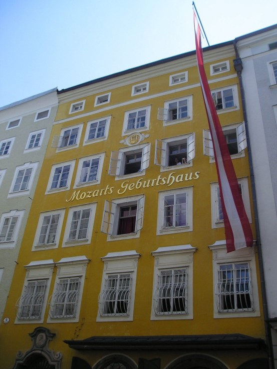 Austria, Salzburg, Getreidegasse